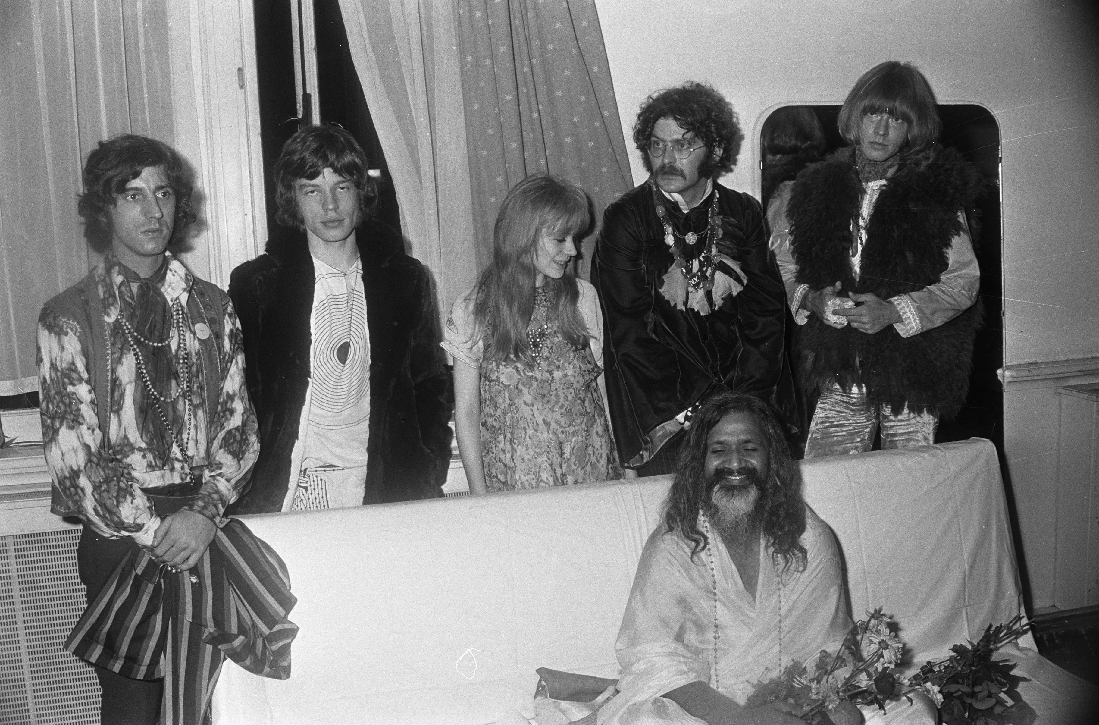 Concertgebouw Amsterdam, 1 Sept. 1967. Standing, from left to right: Michael Cooper, Mick Jagger, a pregnant Marianne Faithfull, Shepard Sherbell, Brian Jones. Sitting:Maharishi Mahesh Yogi. Photo by Ben Merk (ANEFO)